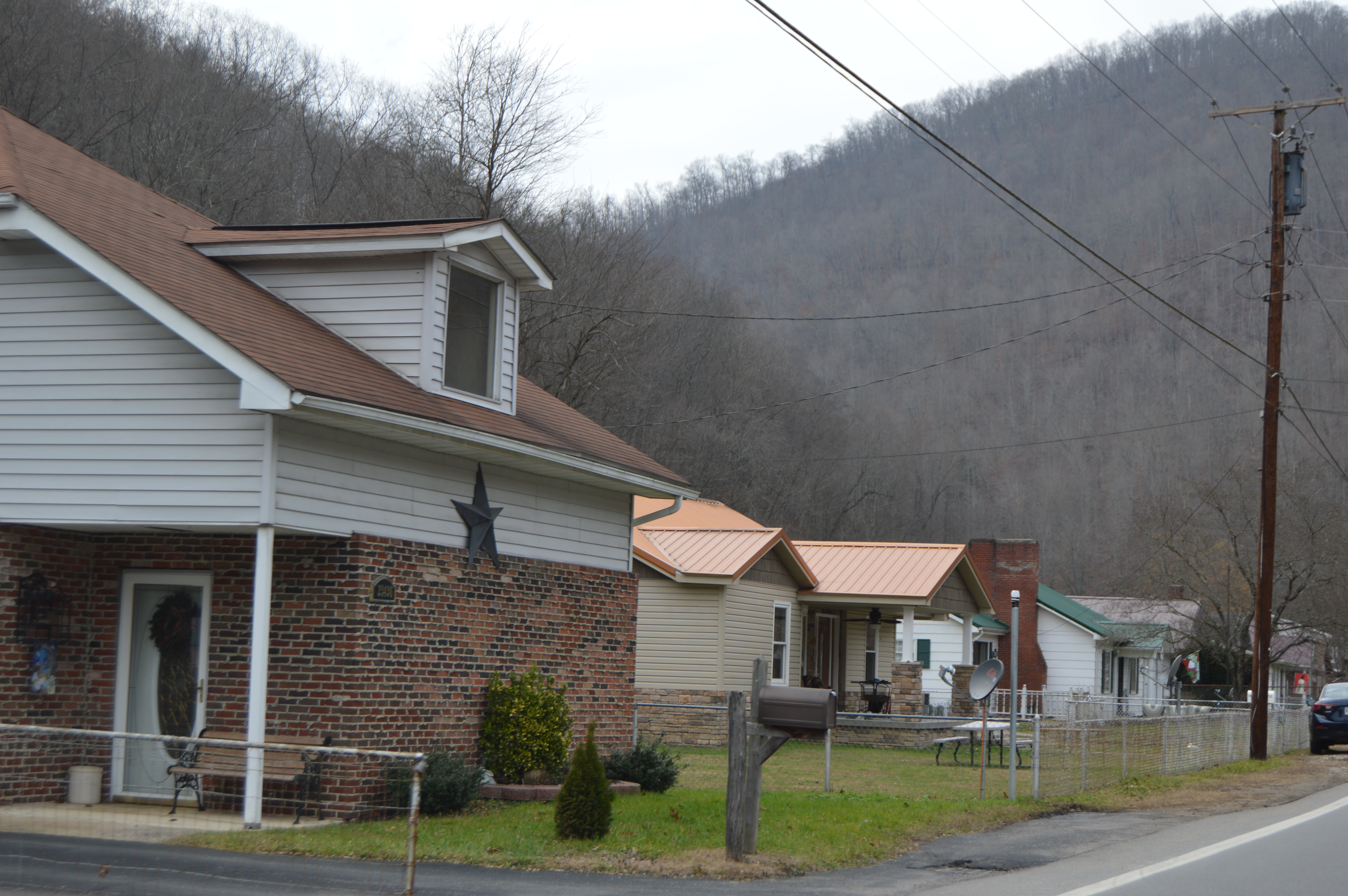 Houses on the southern side of West Virginia Route 85 at Bob White in Boone County, West Virginia, United States.